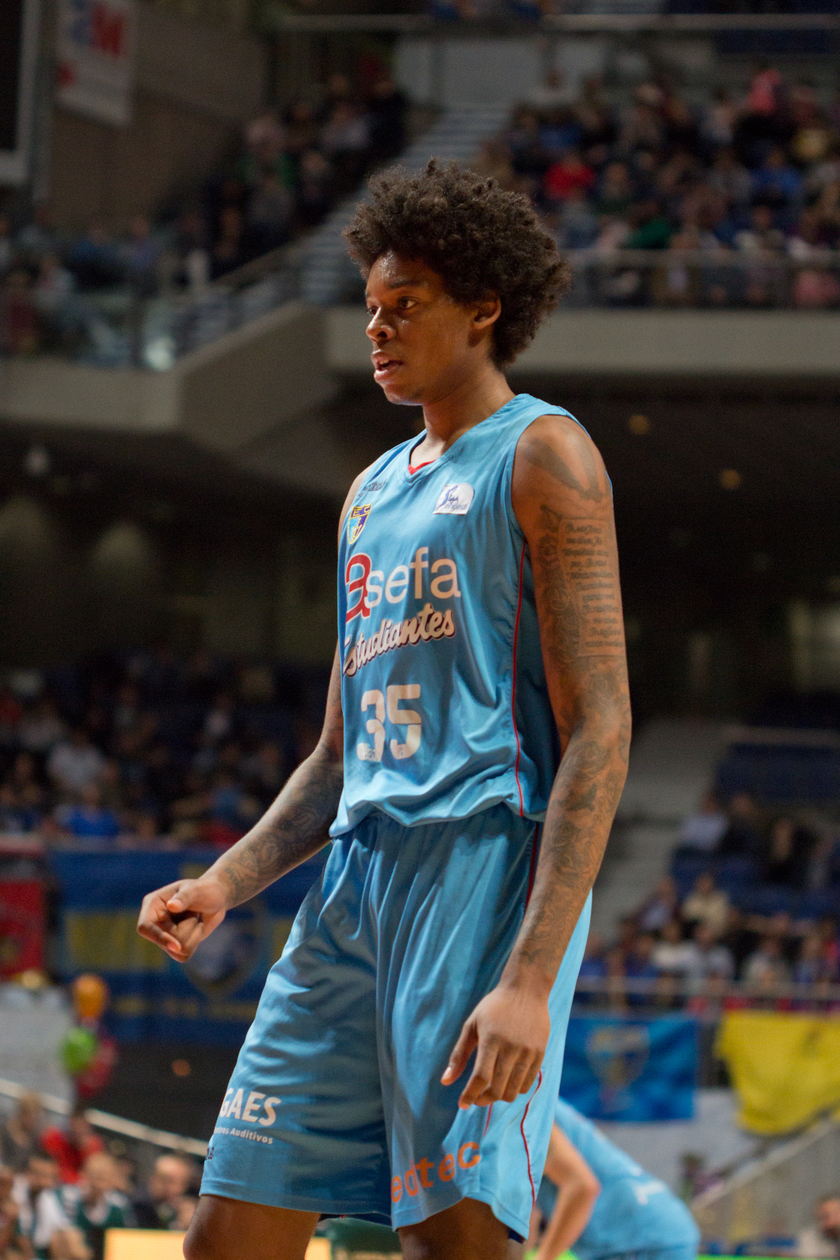 Lucas Nogueira. Game Estudiantes vs Unicaja Málaga.